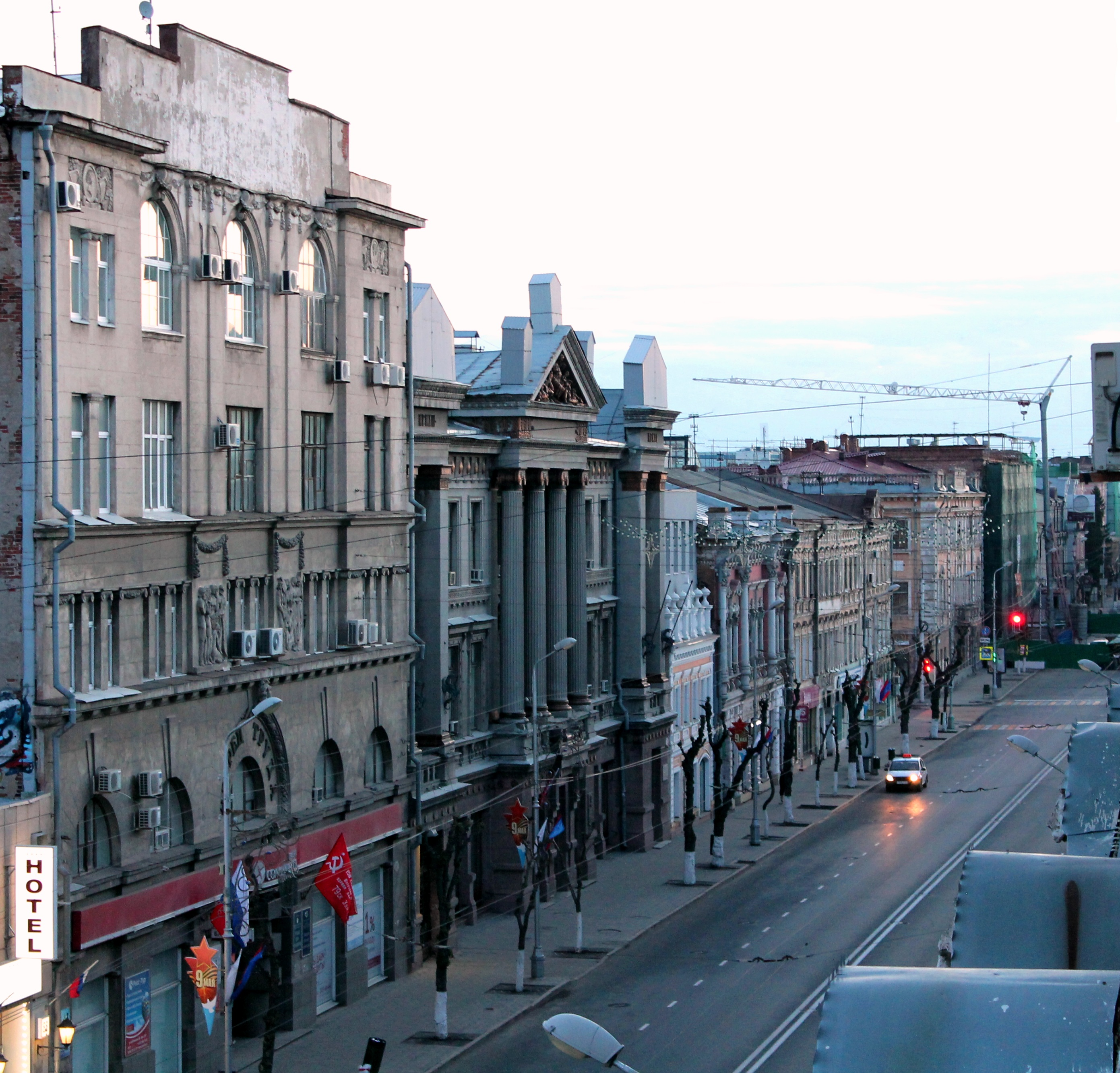 Kuybisheva st, Samara